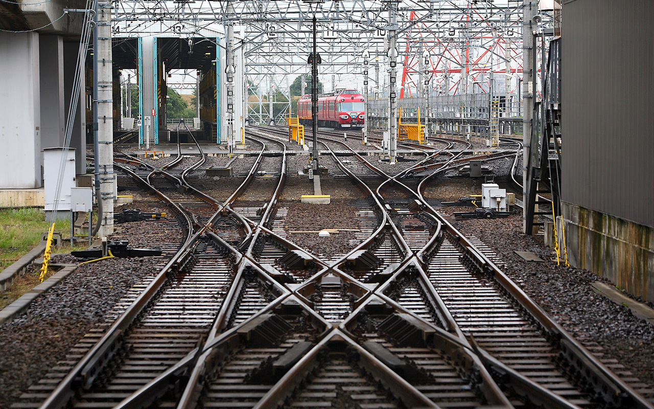 Nagoya Railroad Toyoake Inspection yard.